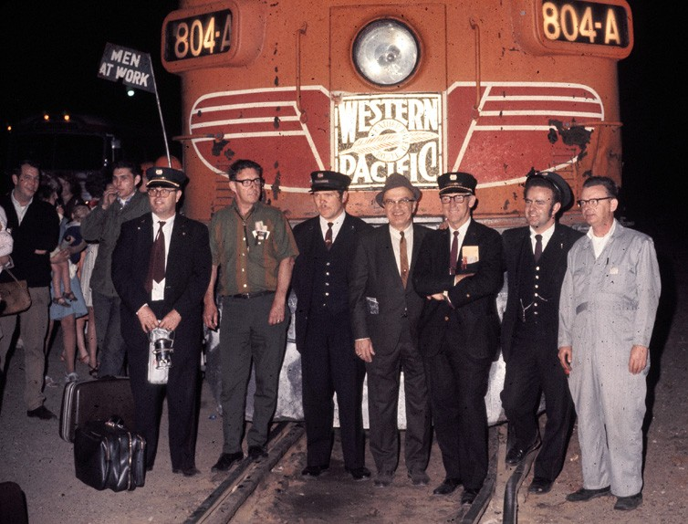 Last Zephyr crew at Oakland. Myron W. Christy in suit, Ernie von Ibsch 2nd from right. Anyone know the others?